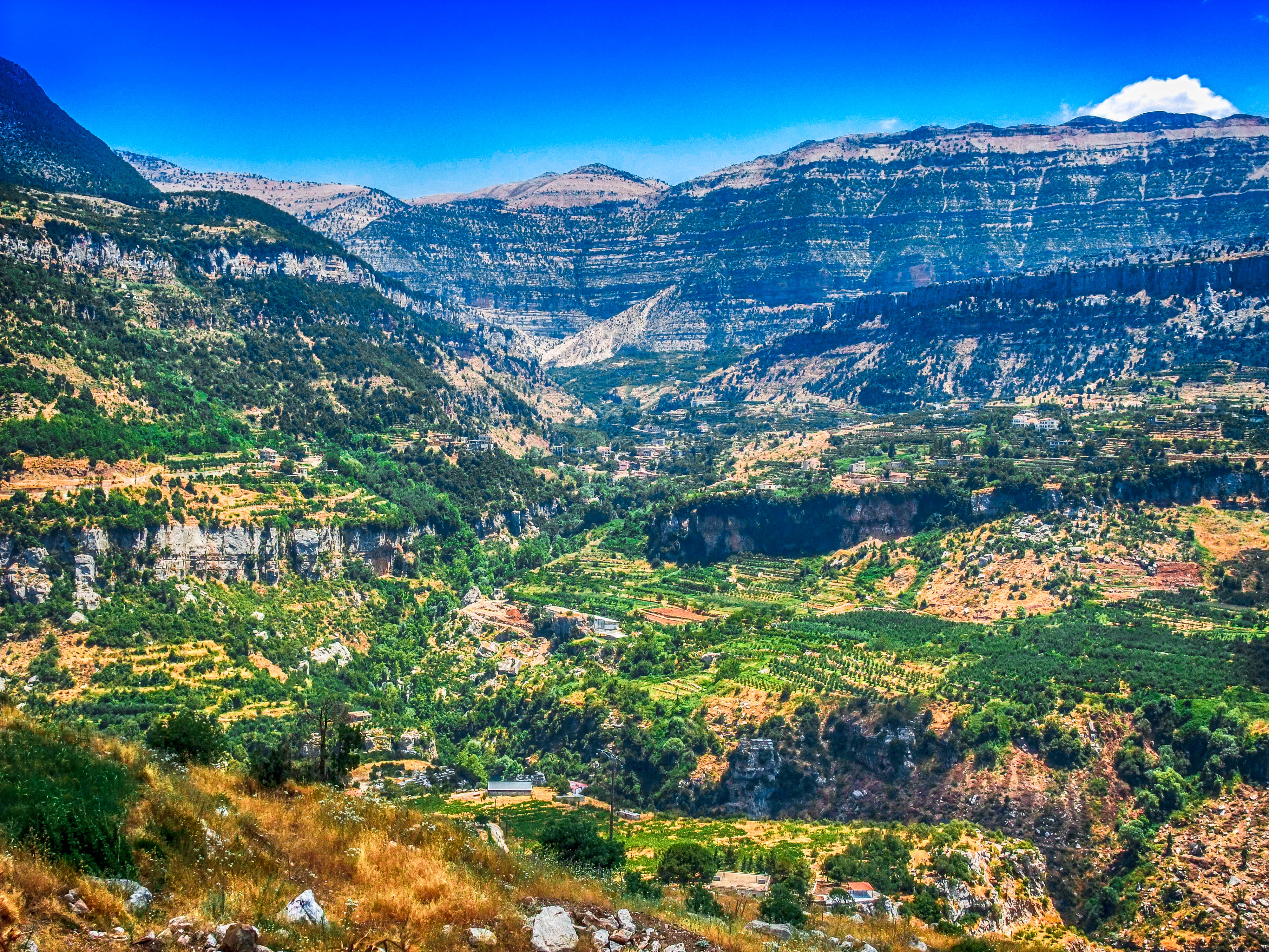 Afka From qartaba, Lebanon